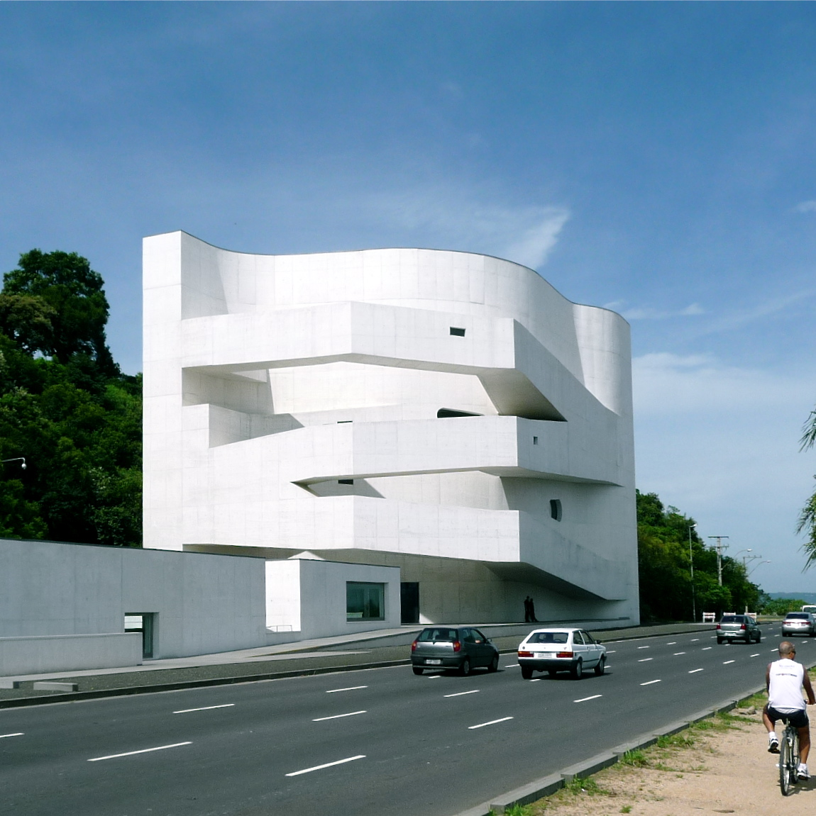 Fundação Iberê Camargo. Ibere Camargo Foundation, Porto Alegre.